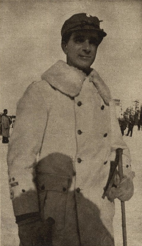 "After Lieutenant Colonel Magnus Dyrssen, Lieutenant Colonel, Carl-Oscar Agell, commanded Group I."